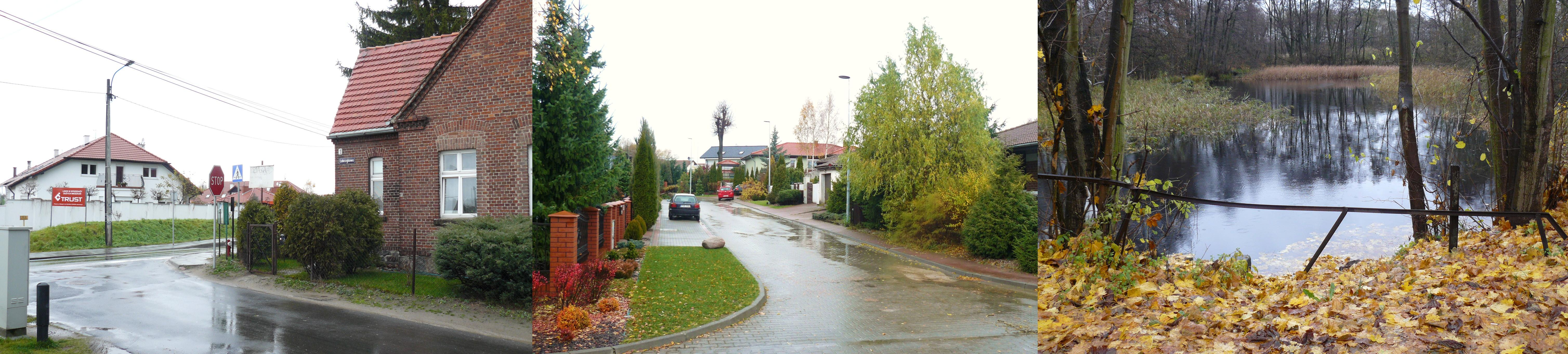 Nowa Wies Gorna - district of Poznan.